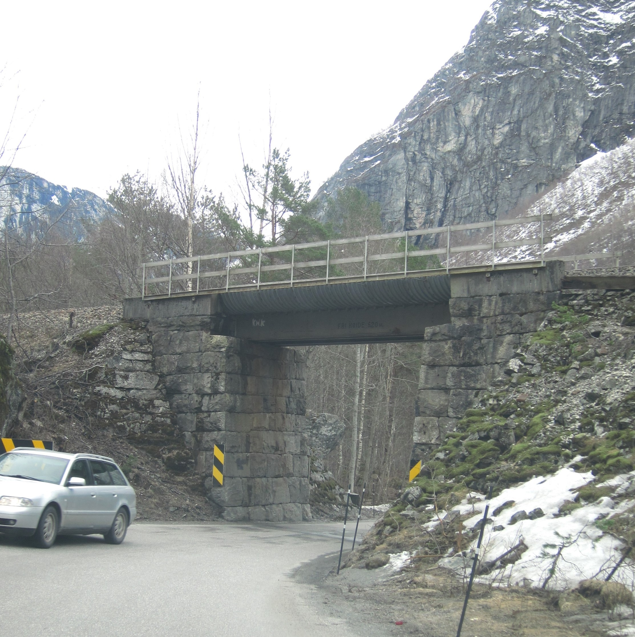 Railwaybridge on road E136, Raumabanen, Norway